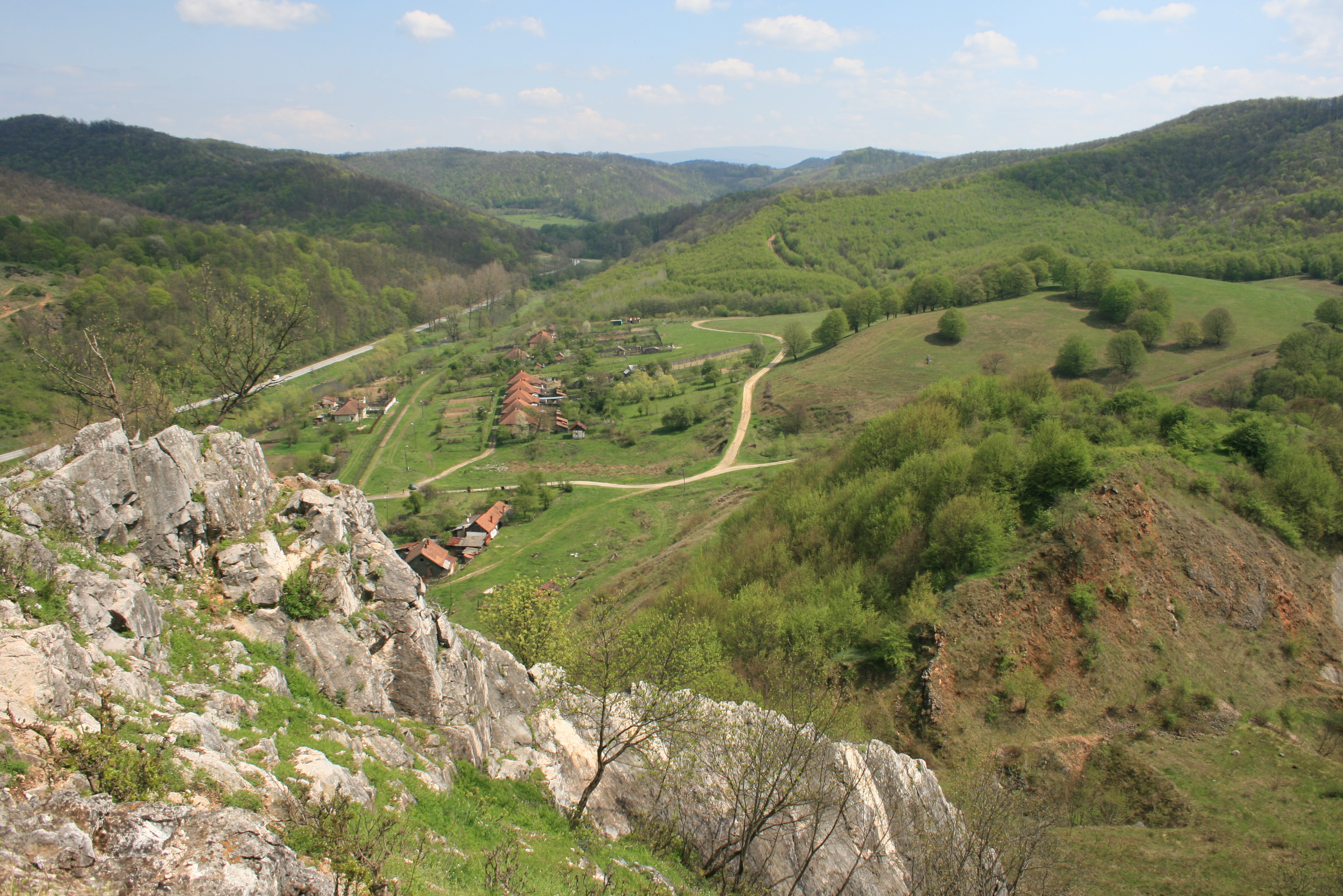 View from Coltan